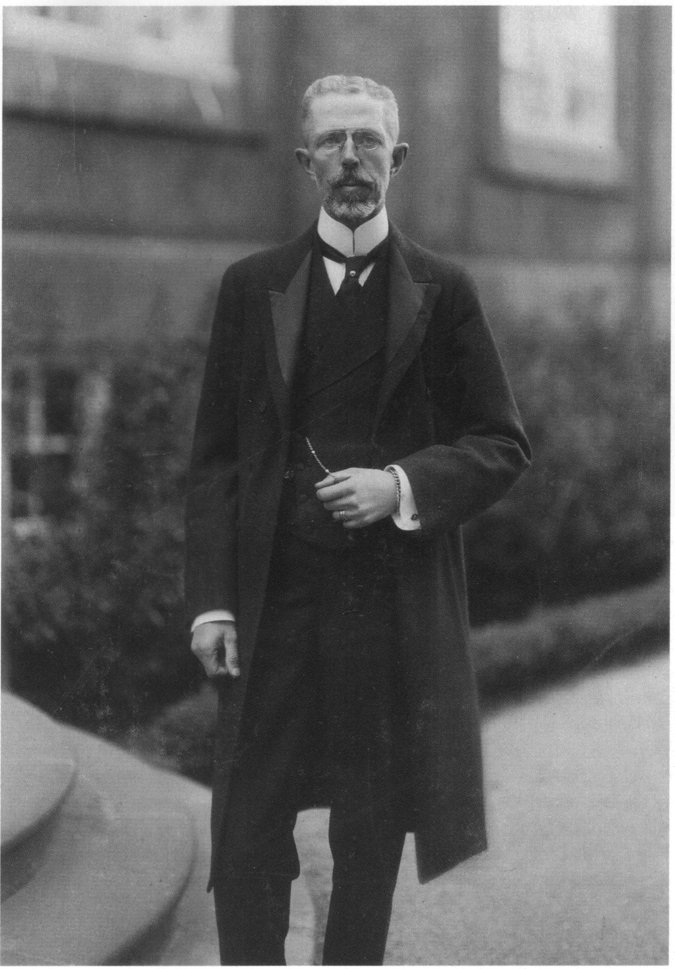 Gustav V in Copenhagen around 1916